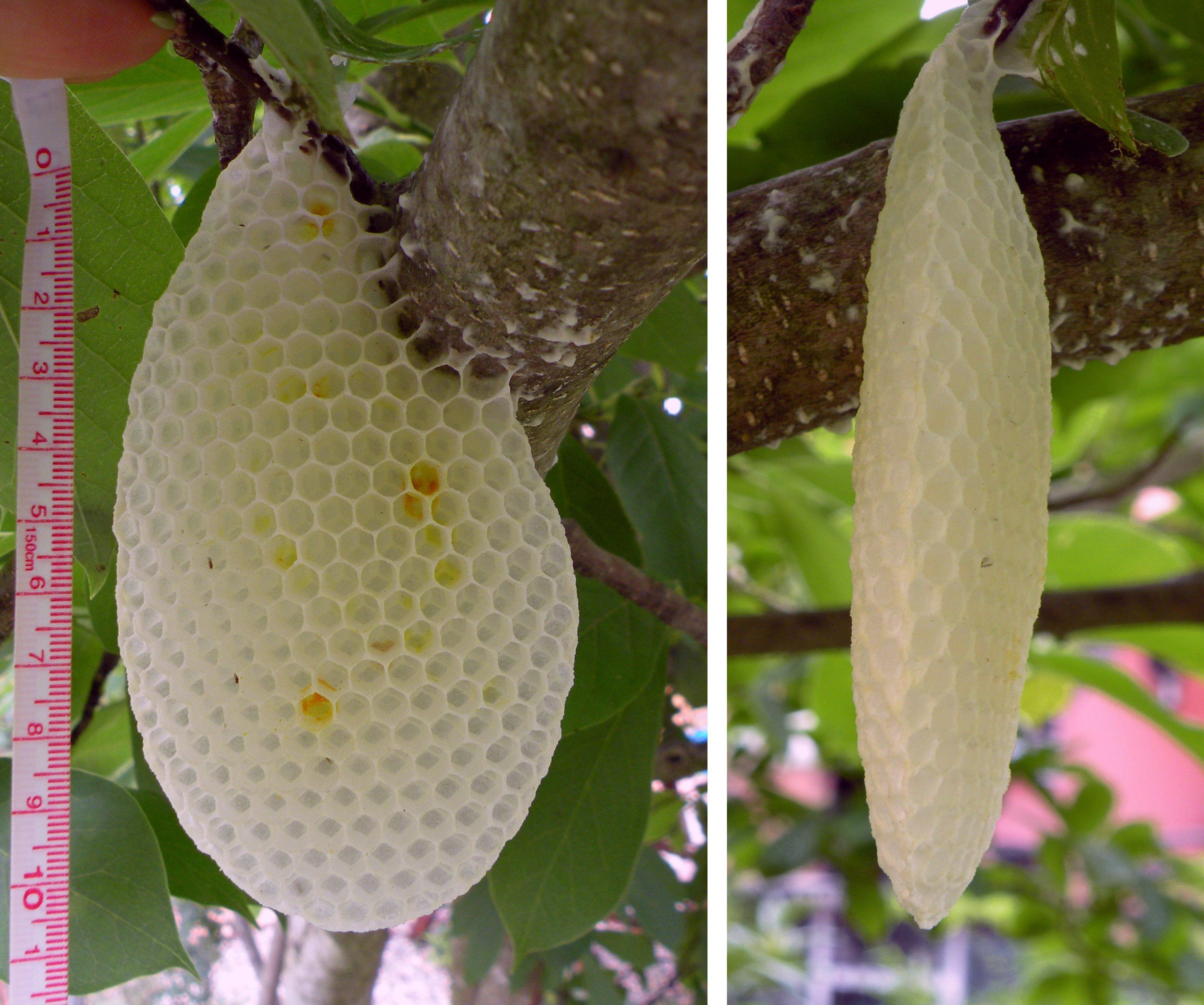 Newly built hive abandoned after a heavy storm